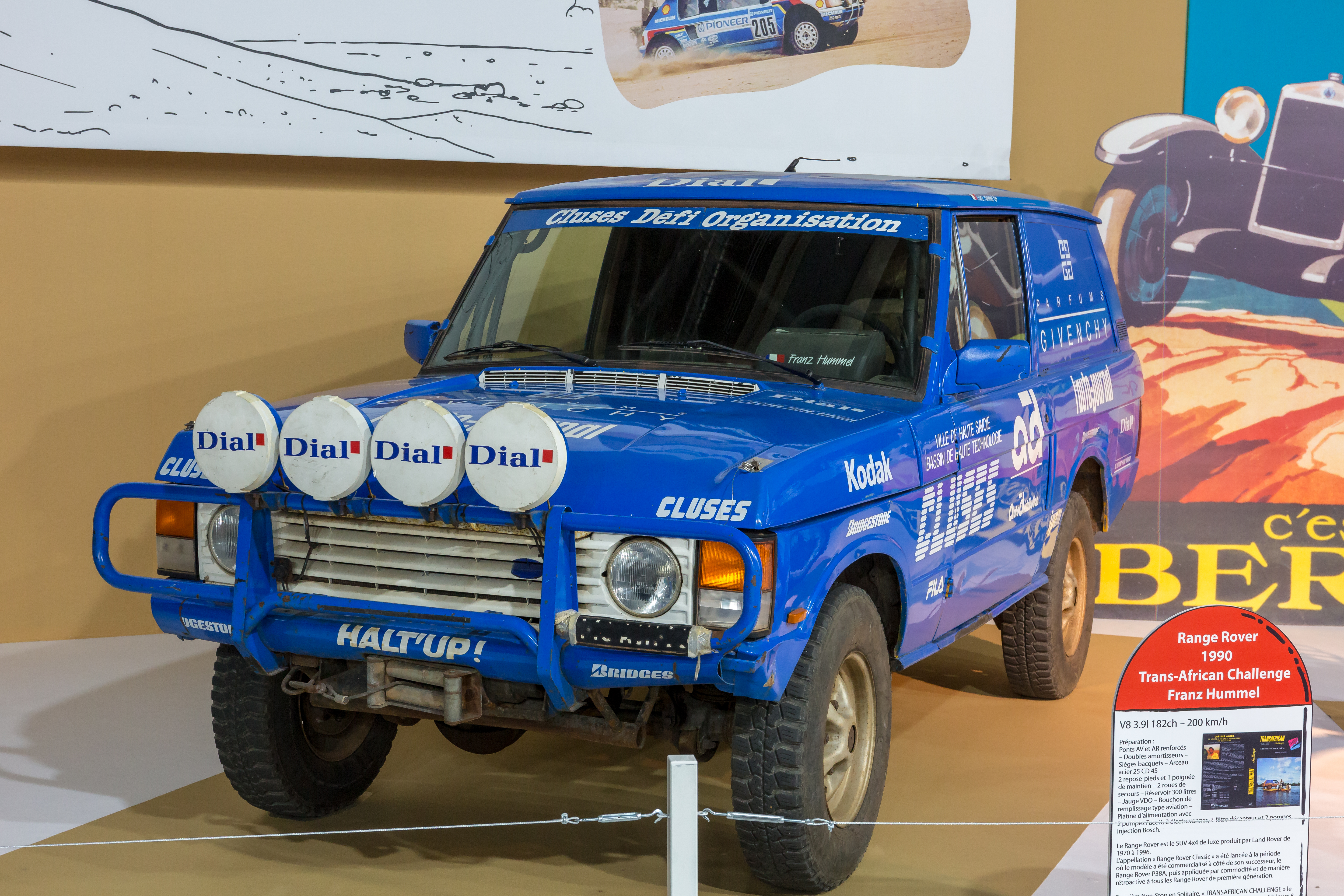 Mondial Paris Motor Show 2018